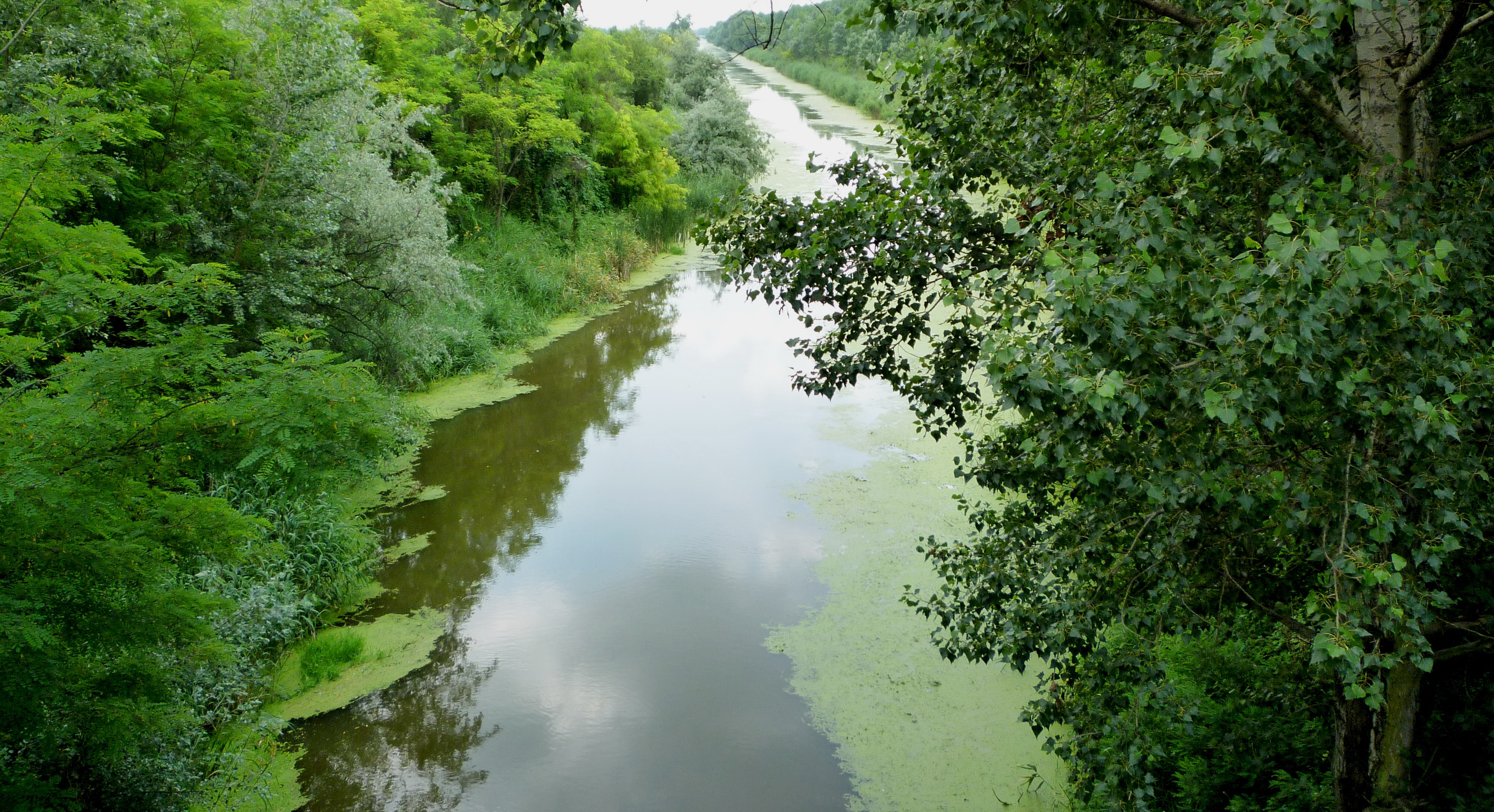 View from Budapest–Kelebia railway line bridge, Danube–Tisza Canal near Dunaharaszti (Hungary).